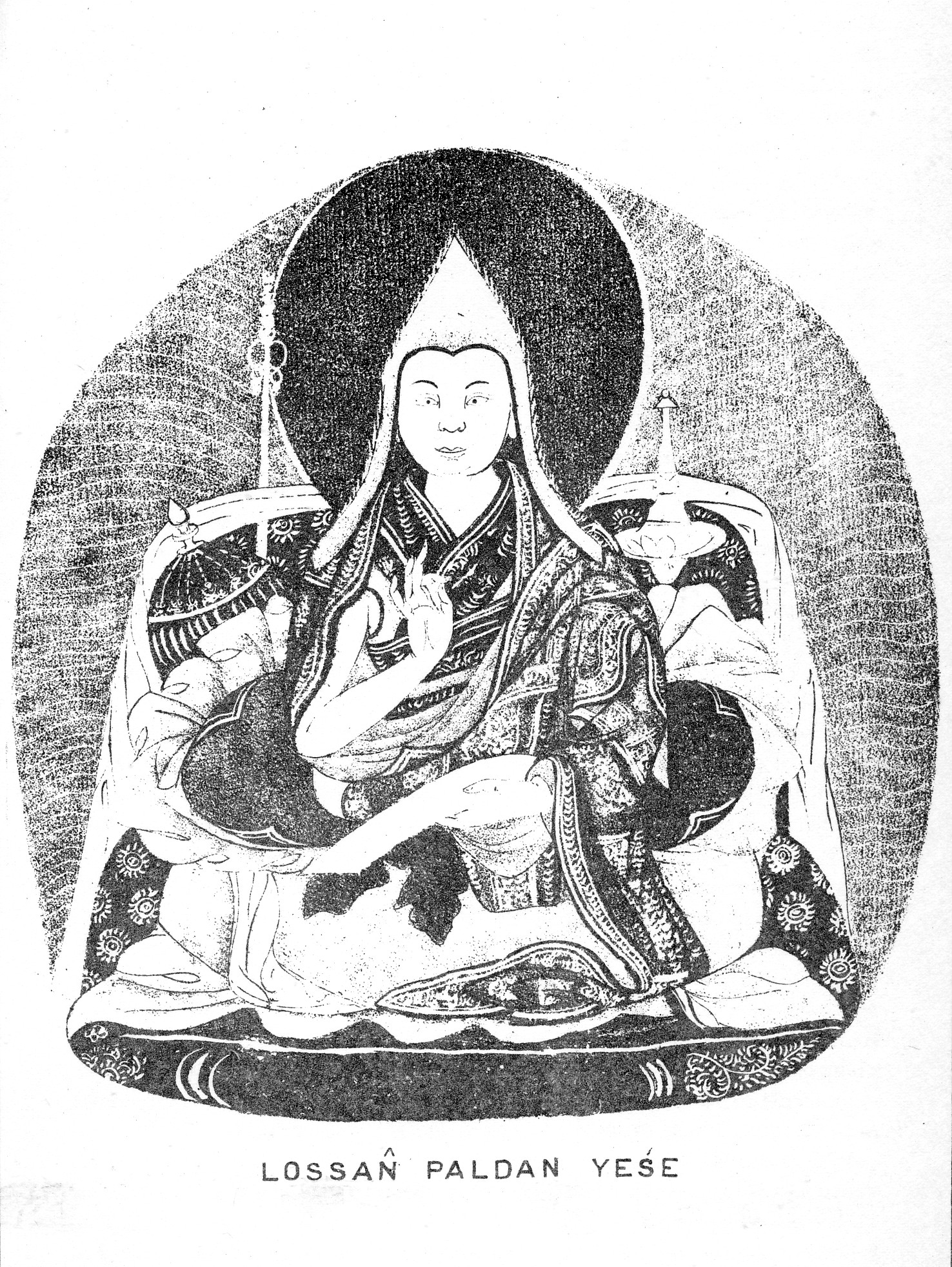 Image taken from a publication by Sarat Chandra Das (1849-1917), "Contributions on Tibet", in the Journal of the Asiatic Society of Bengal Vol. LI (1882), so it is in the public domain. John Hill 02:09, 24 September 2007 (UTC)